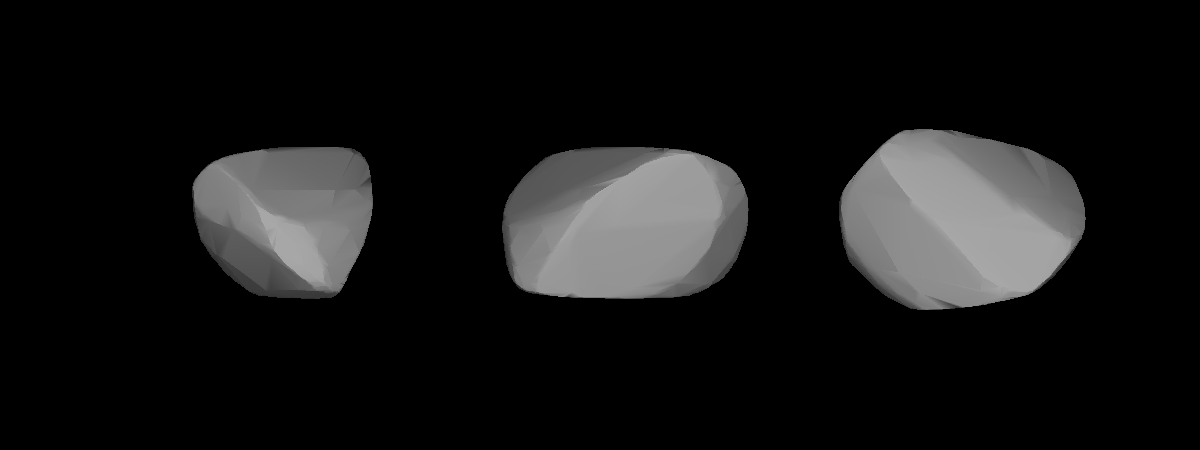 A three-dimensional model of 1353 Maartje that was computed using light curve inversion techniques.